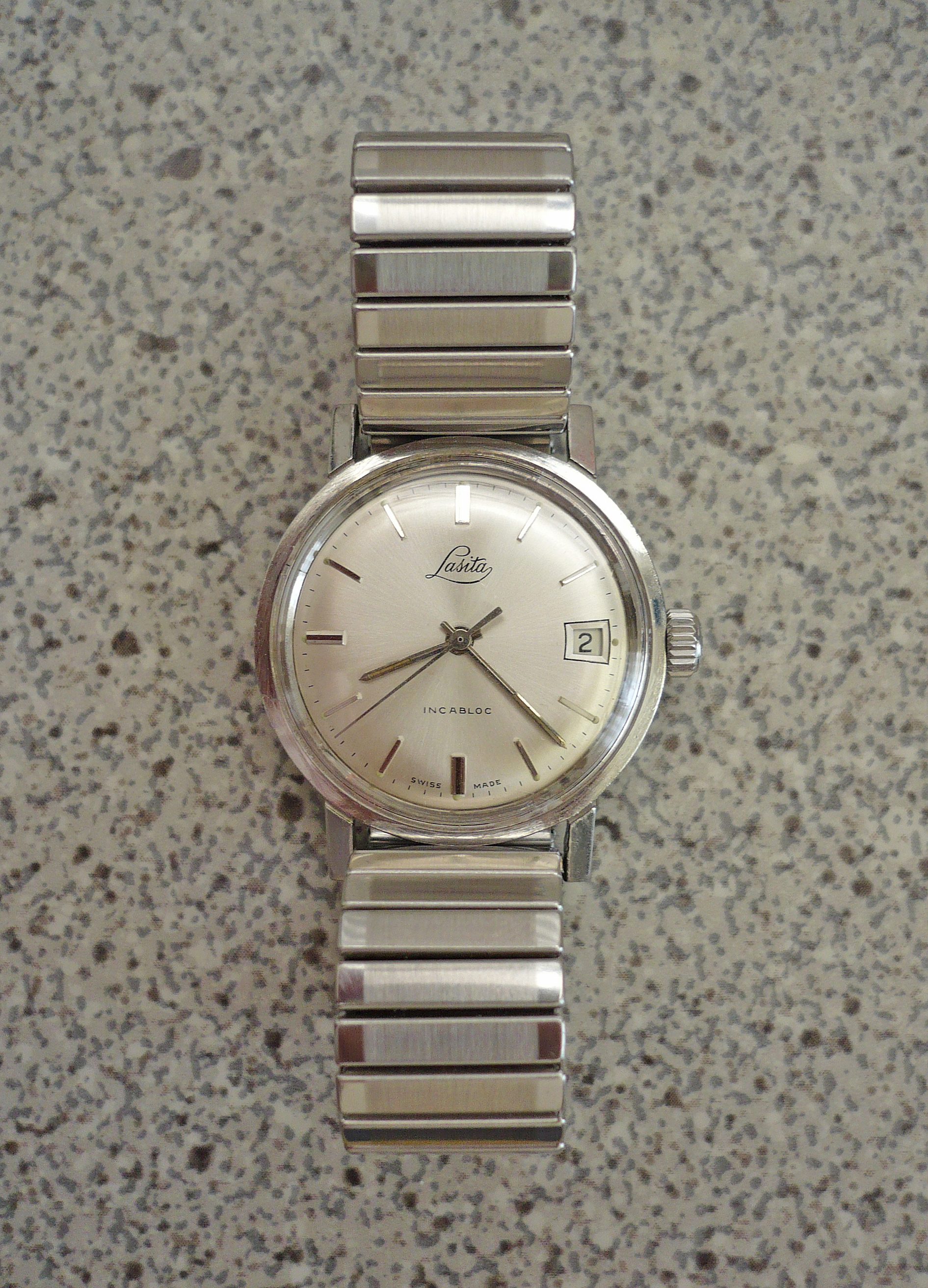 Lasita hand winding vintage midsize mens wrist watch on a ROWI Fixoflex expandable/retractable elastic watchband.